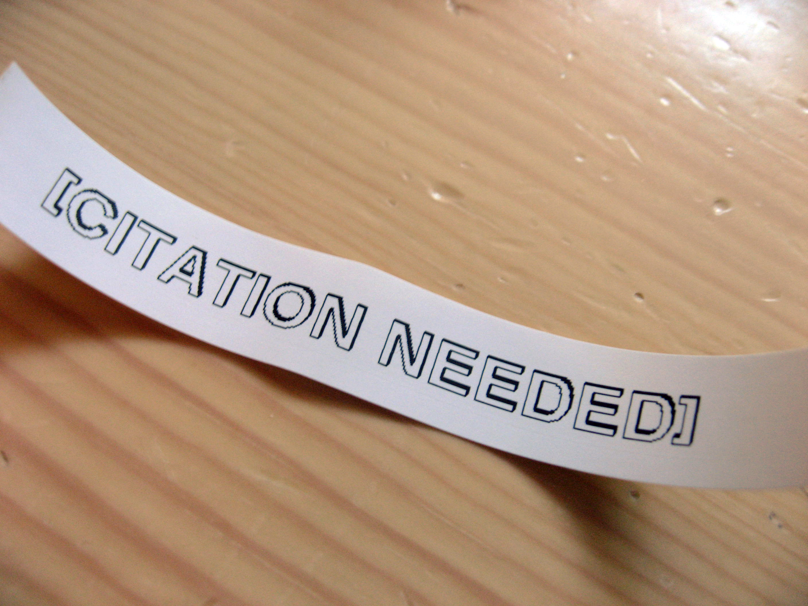 Label